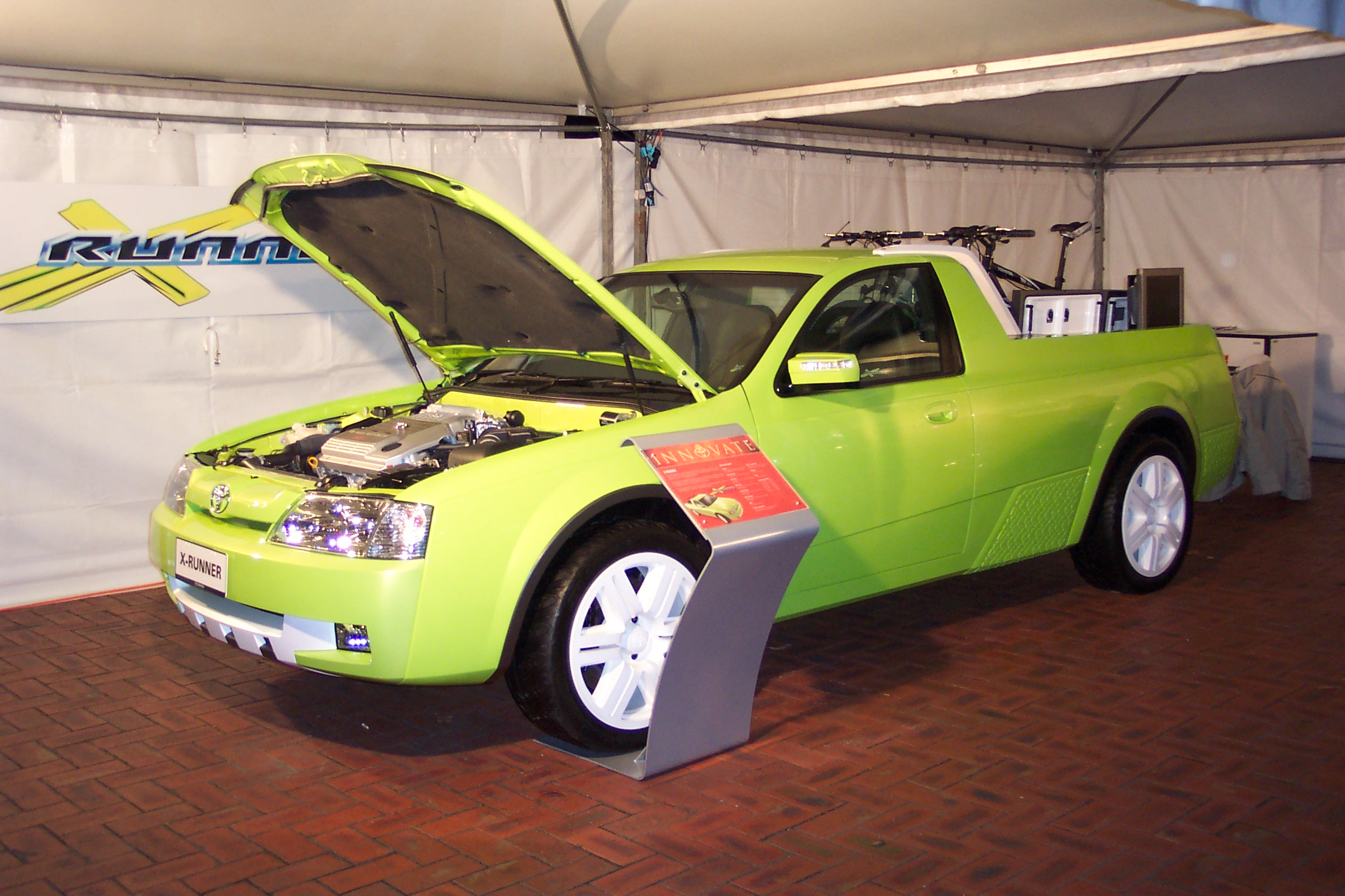 2003 Toyota X-Runner ute. All wheel drive ute concept based on Camry/Avalon platform, built by Toyota Australia. Taken at the 2003 Sydney International Motor Show.